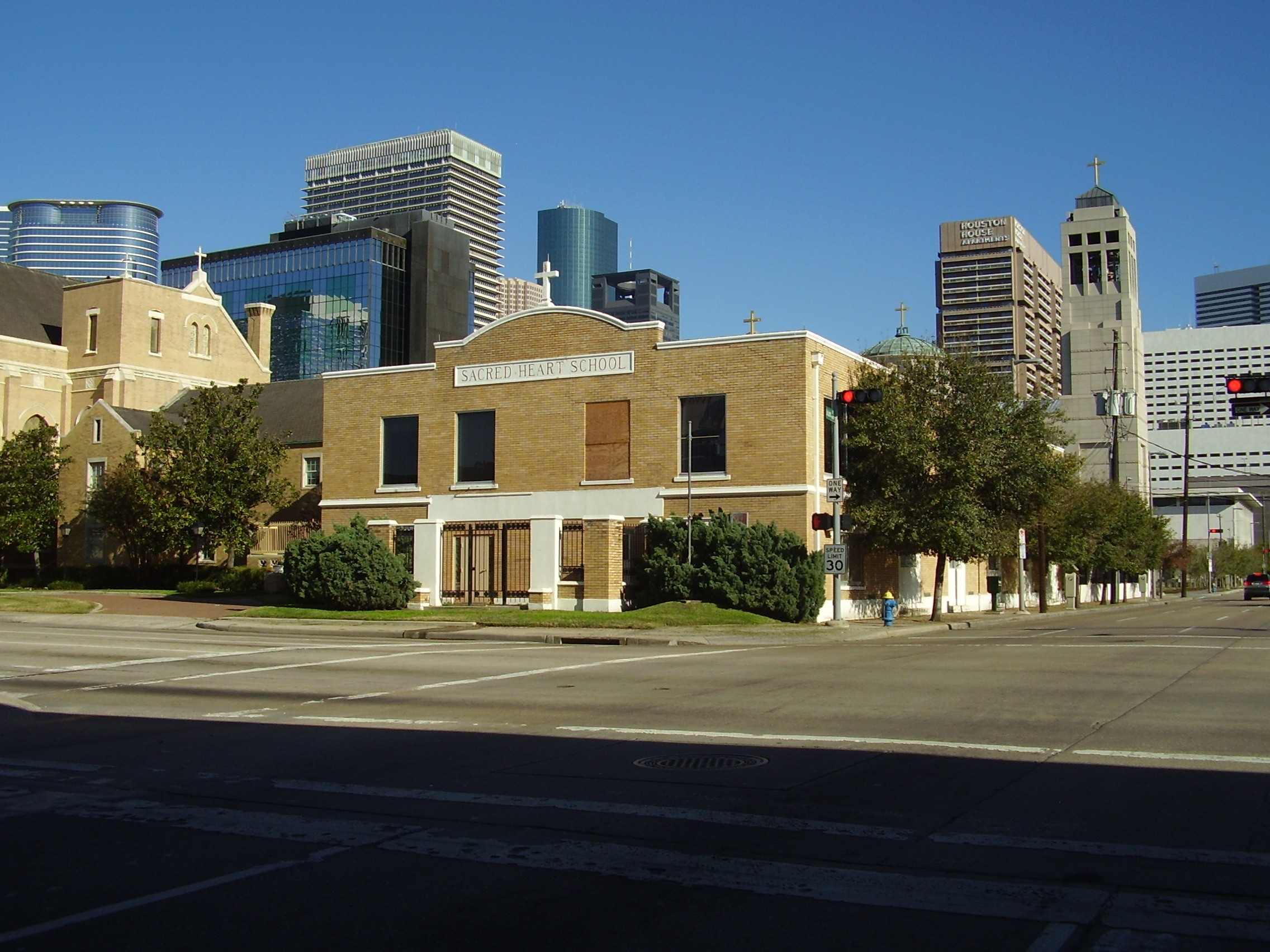 Former Sacred Heart School building in Downtown Houston